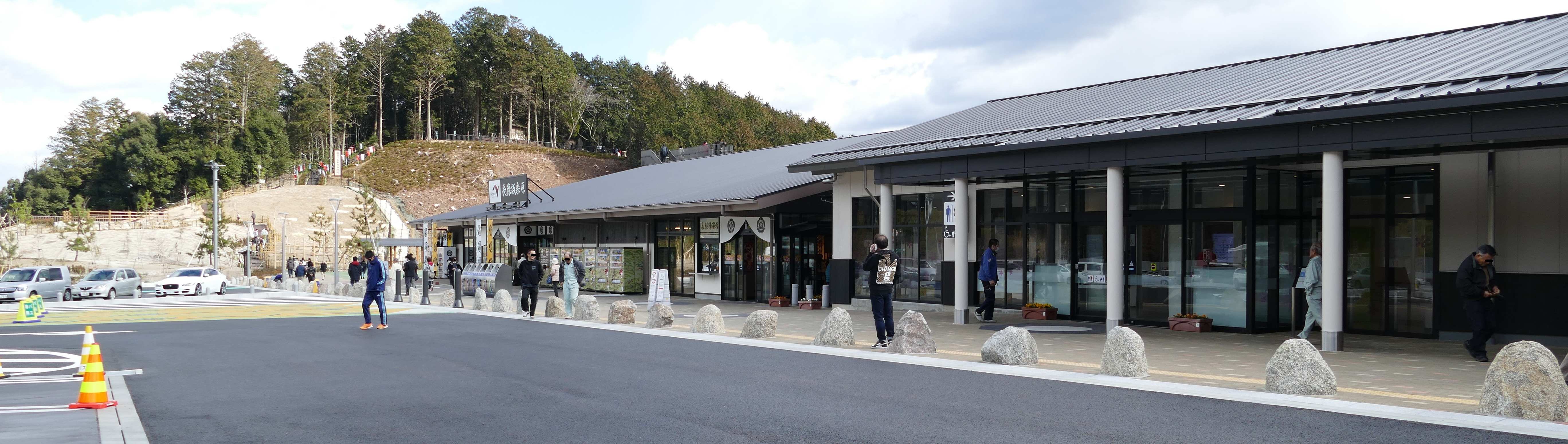 Nagashino-Shitaragahara Paking Area for Nagoya,Aichi prefecture,Japan